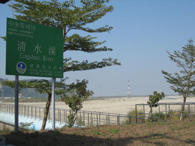 Cingshuei River in the dry period,as seen the distant place is Zhuoshui River and National Highway No.3. The picture was taken from Provincial Highway No.3 in Jhushan,Nantou County,near Nanyun Bridge.